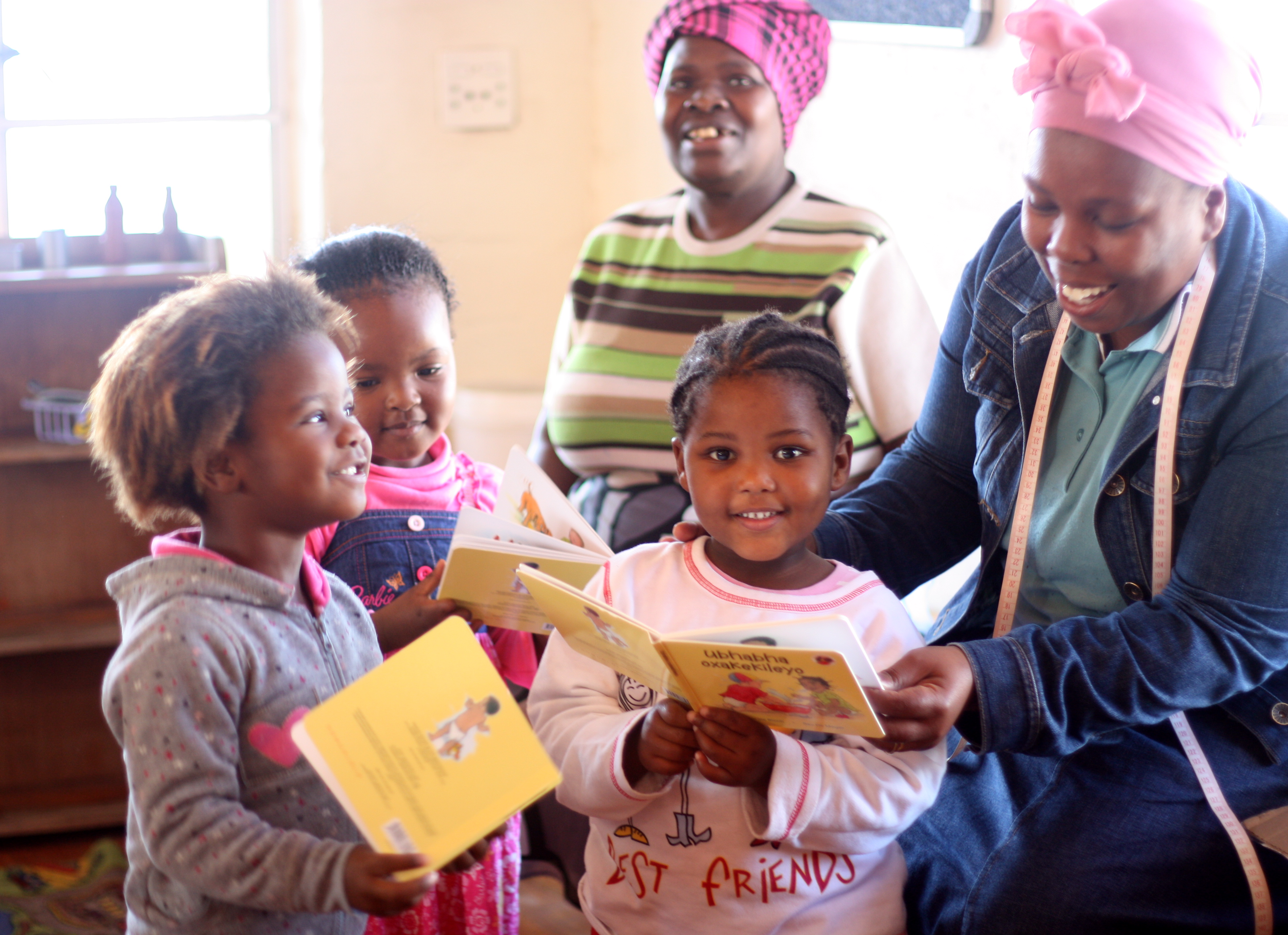 PRAESA in South Africa Focus on reading and storytelling during this year's prize winners week Press Releases • Apr 28, 2015 9:50 am CEST On Monday, May 25, the prize-winning week for the Literature Prize will commence with Astrid Lindgren's memory (ALMA). Representatives from the South African organization PRAESA then visit Stockholm and Vimmerby to participate in this year's program, which is aimed at both school students, educators, the press and an interested public.